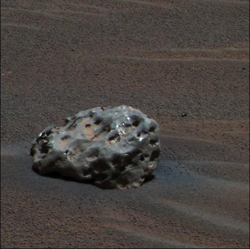 NASA's Mars Exploration Rover Opportunity has found an iron meteorite on Mars (now known as Heat Shield Rock), the first meteorite of any type ever identified on another planet. The pitted, basketball-size object is mostly made of iron and nickel. Readings from spectrometers on the rover determined that composition. Opportunity used its panoramic camera to take the images used in this approximately true-color composite on the rover's 339th martian day, or sol (Jan. 6, 2005). This composite combines images taken through the panoramic camera's 600-nanometer (red), 530-nanometer (green), and 480-nanometer (blue) filters.